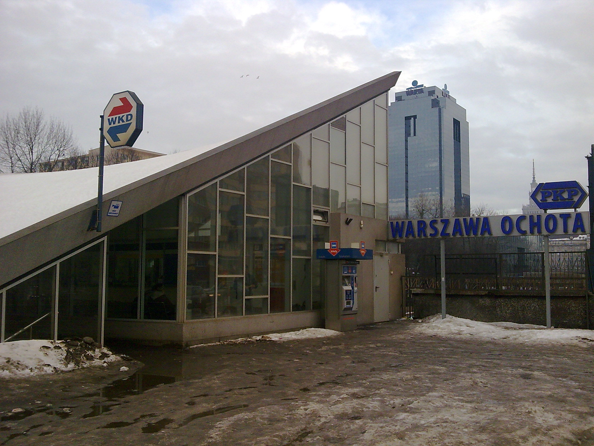 Ochota railway station in Warsaw during winter